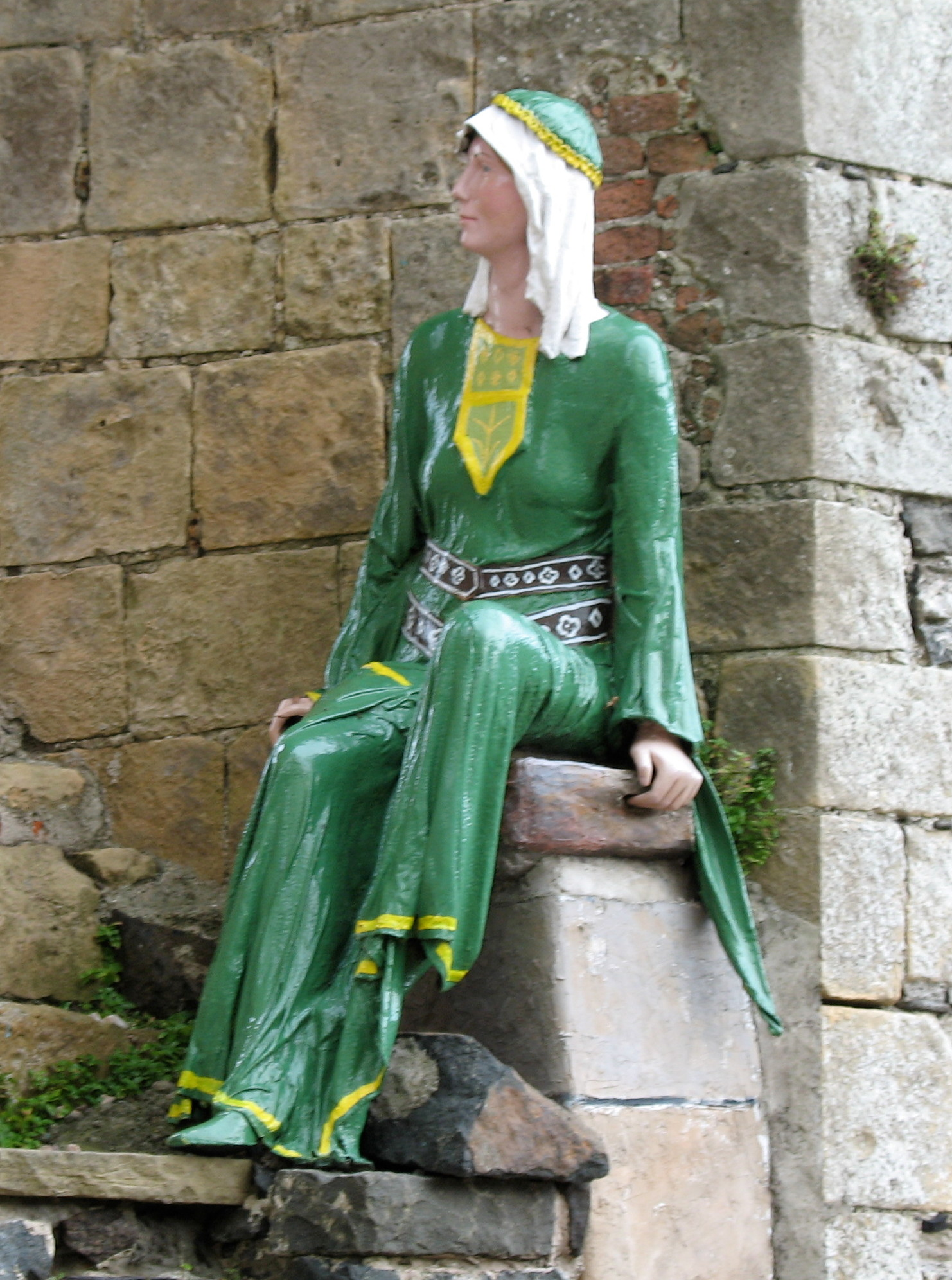 Photo of the mannequin of Affreca de Courcy at Carrickfergus Castle. Original caption: She's looking toward the Isle of Man.